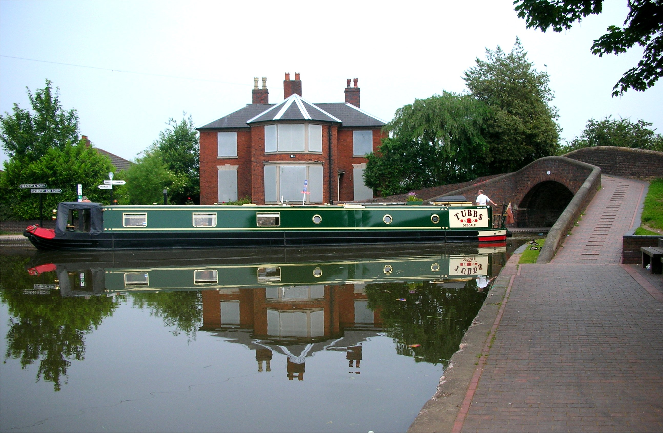 Fazeley Junction, near Tamworth, Staffordshire, England. The toll house and roving bridge over the Coventry Canal, looking northwards. Photographed by me 8 June 2007. Oosoom 23:11, 8 June 2007 (UTC)